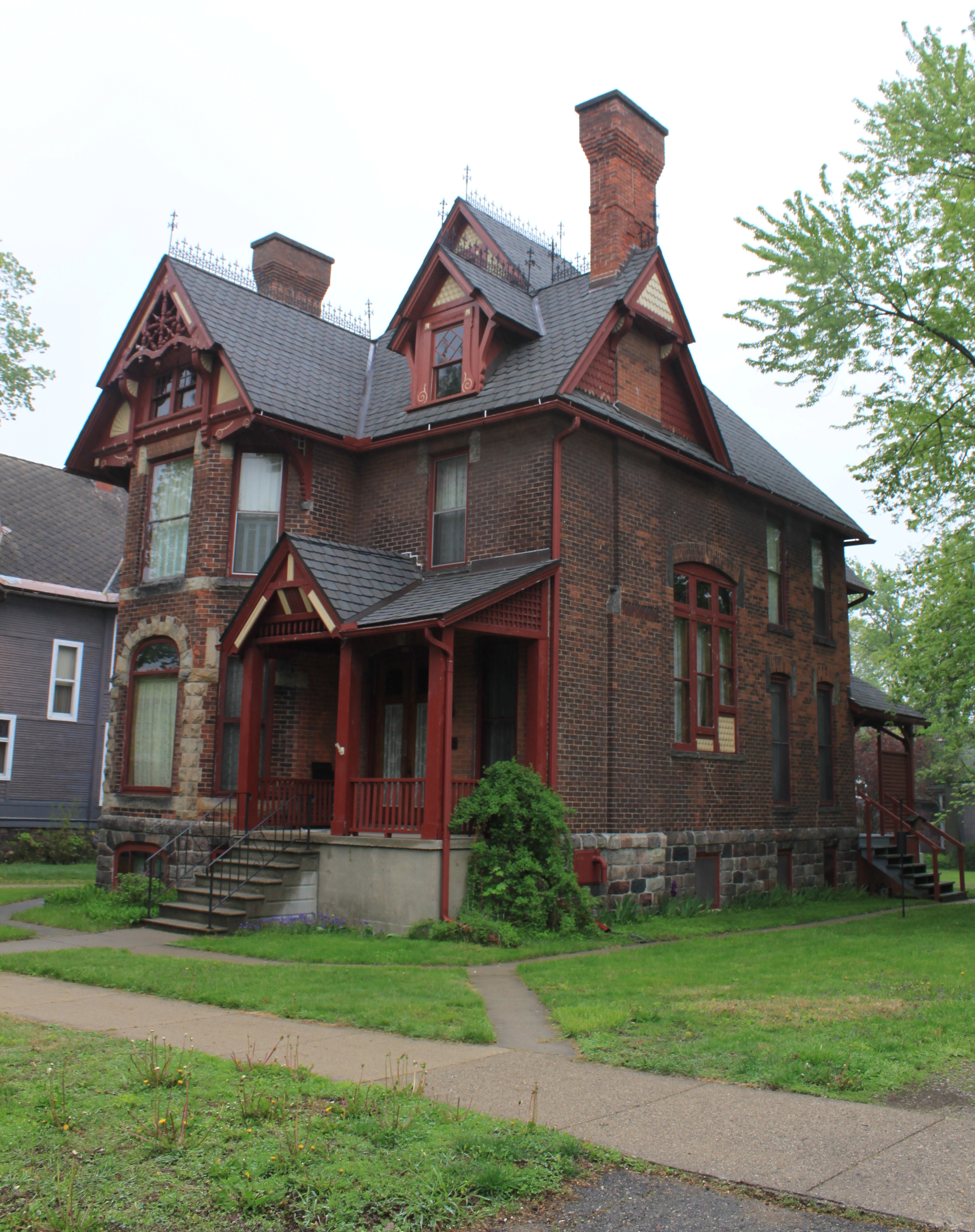 George W. Palmer House, 138 East Middle Street, Chelsea, Michigan. The house is in the National Register of Historic Places.